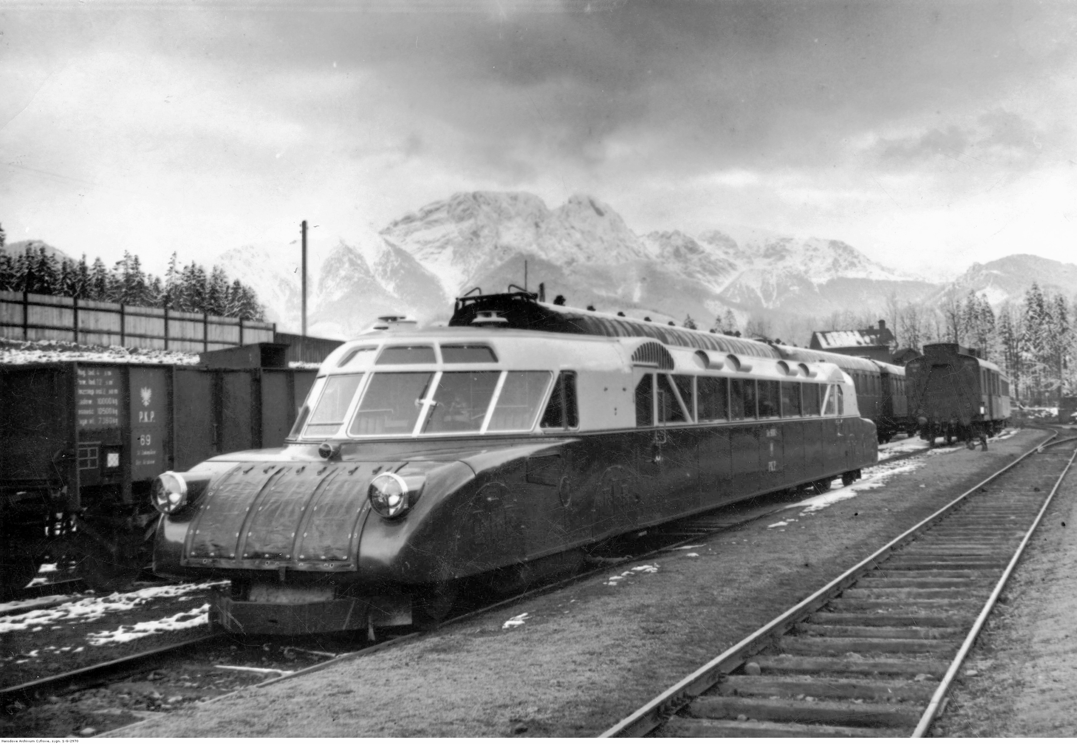 The Fablok Luxtorpeda (115 km/h) at Zakopane station in Poland.